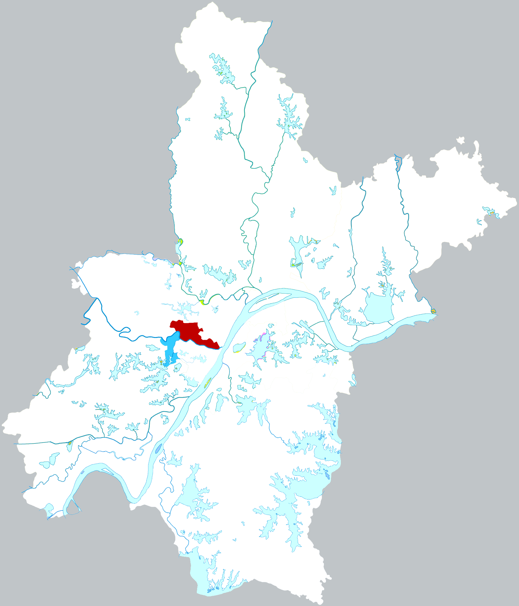 Location of Qiaokou district in Wuhan city, China